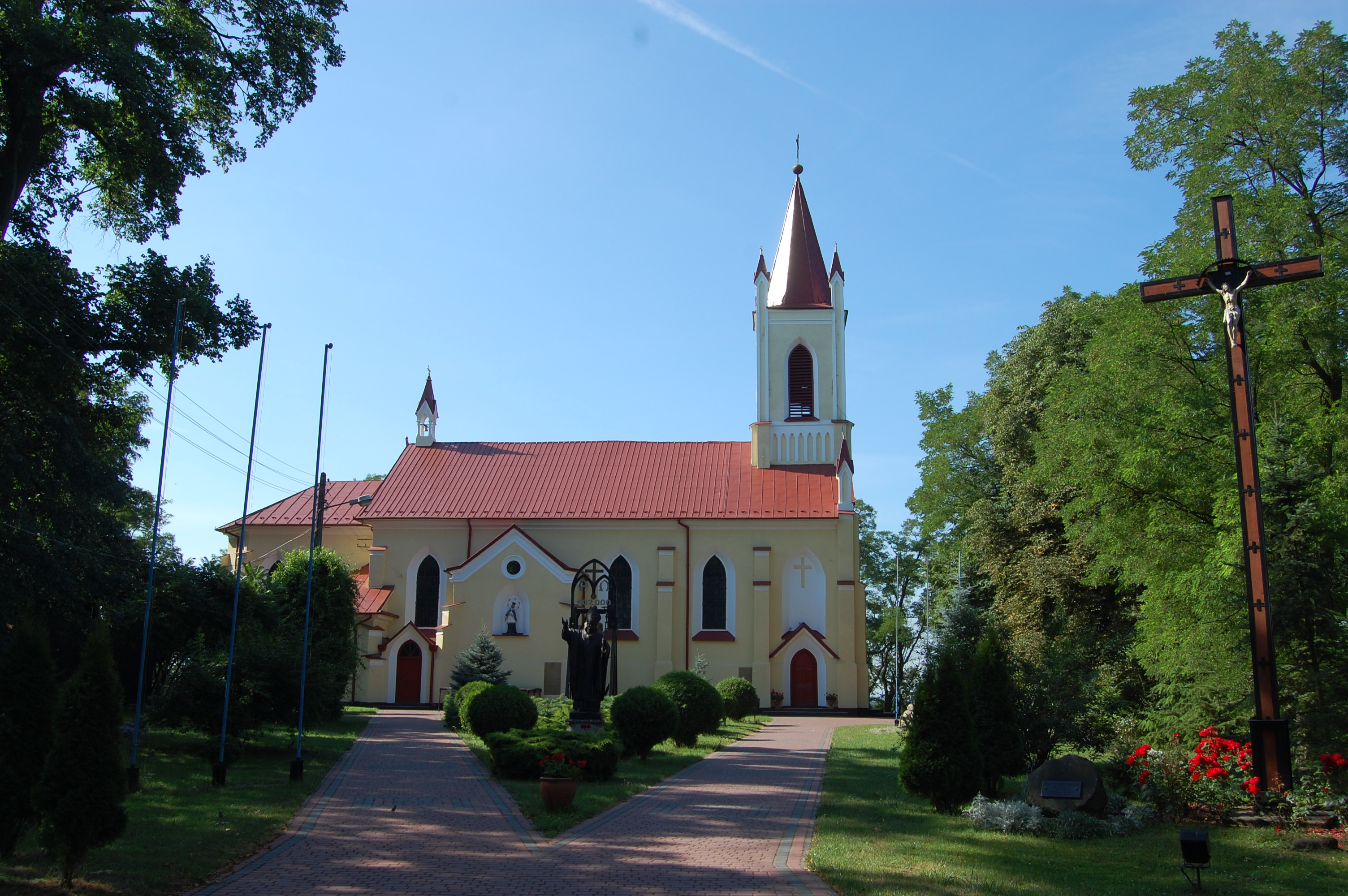 Virgin Mary of Sorrows' Care Church in Nowe Miasto nad Pilicą